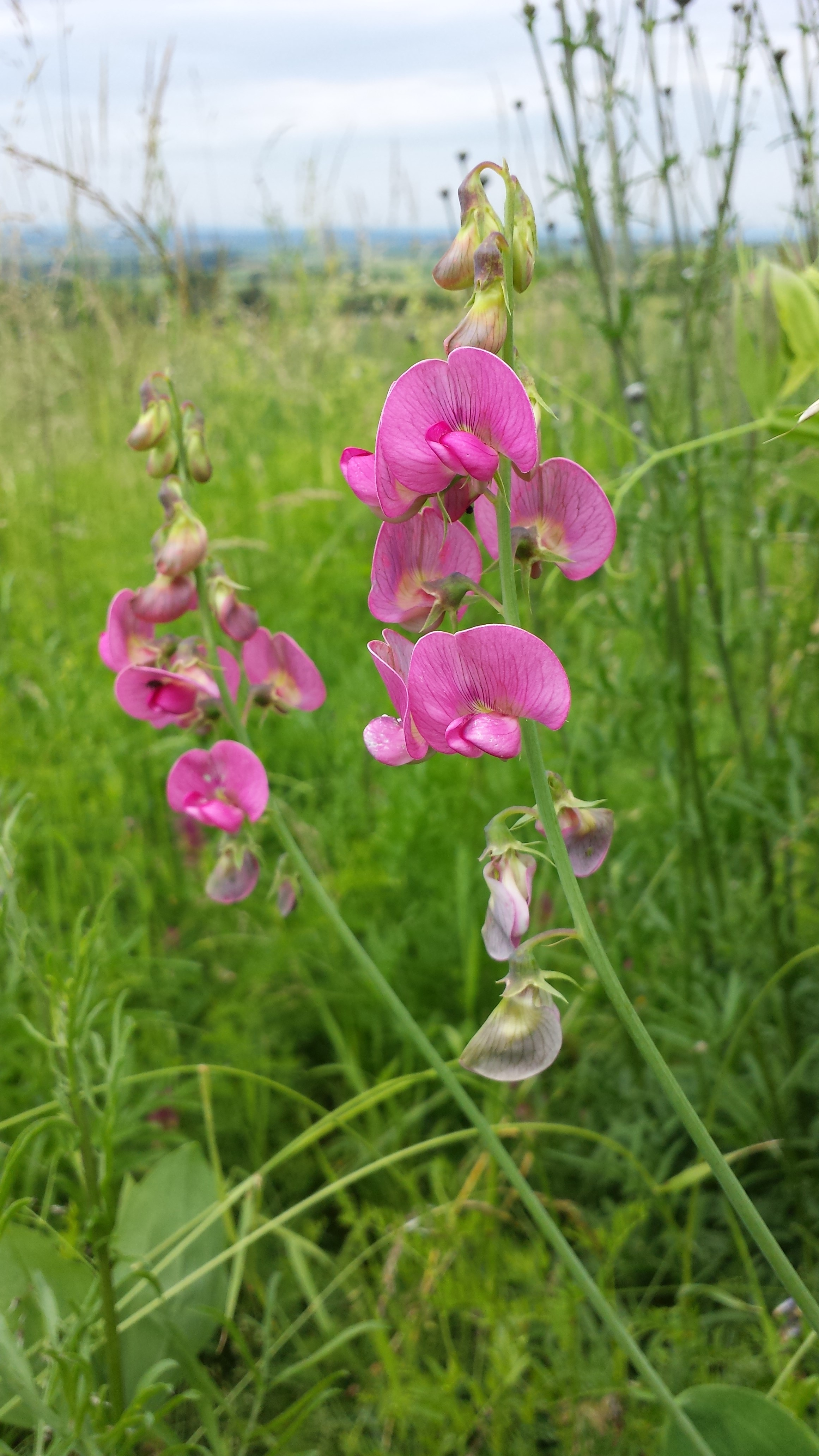 Taxon: Lathyrus latifolius (sensu Fischer et al. EfÖLS 2008) Location: gallows hill near Oberstinkenbrunn, district Hollabrunn, Lower Austria - ca. 330 m a.s.l. Habitat: poor grassland